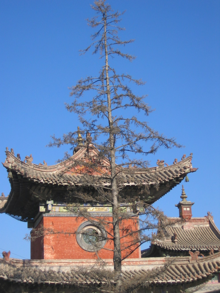 A view of one of the pagodas at he Monastery of the Choijin Lama at the center of Ulaanbaatar.